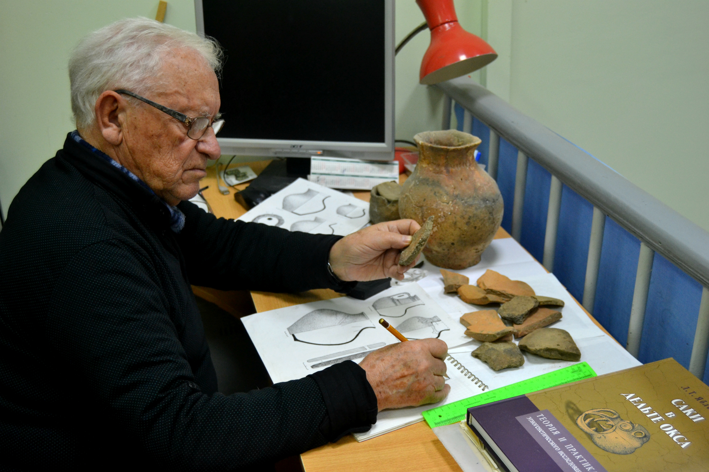 To participate in this contest didn`t want to make any demonstration photos. So I just looked into the science lab. Where I saw the work of the archaeologist Vladislav Ivanovich Mamontov.